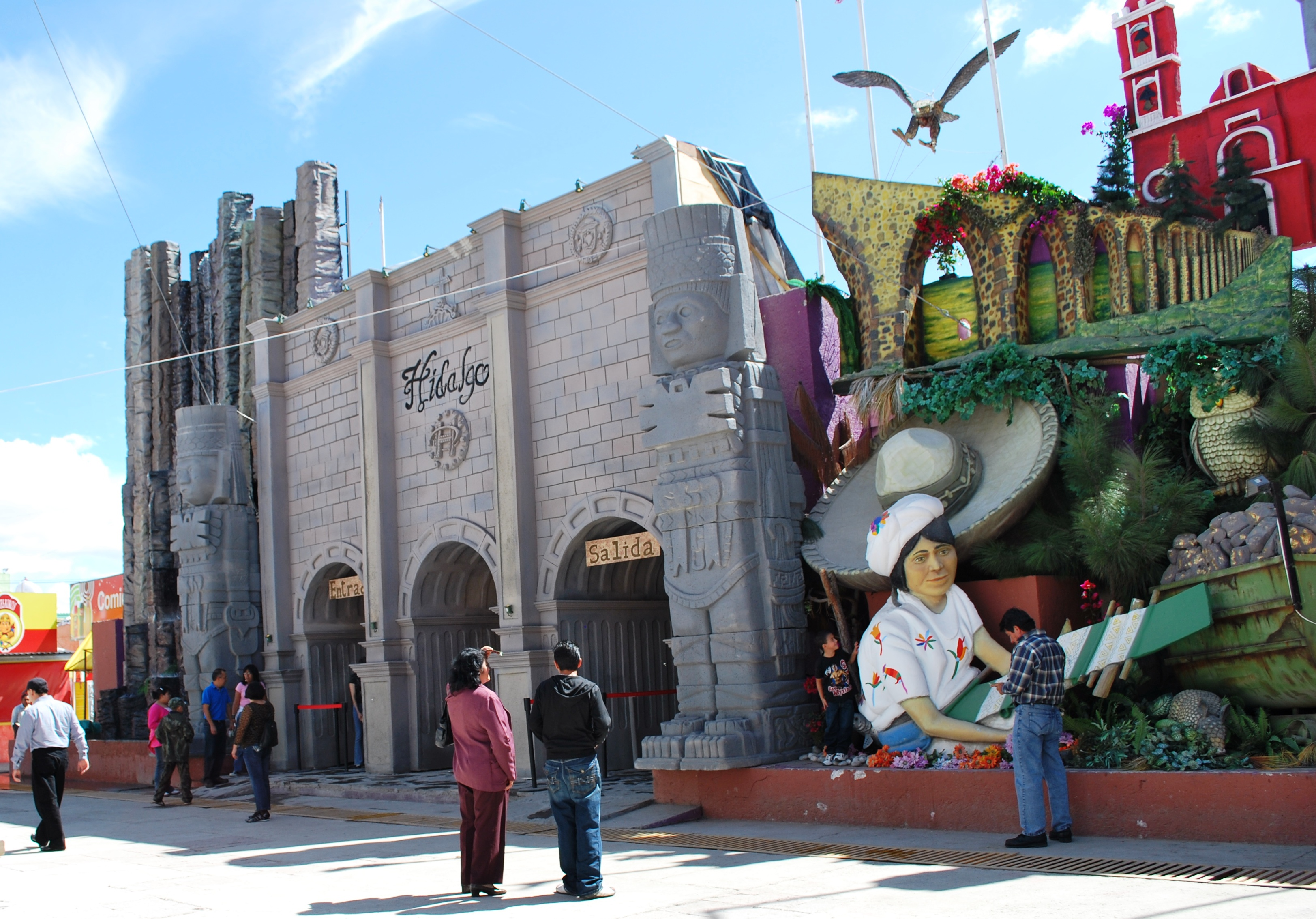 Display of tourism attractions of the state of Hidalgo at the Feria de Hidalgo in Pachuca, Hidalgo, Mexico